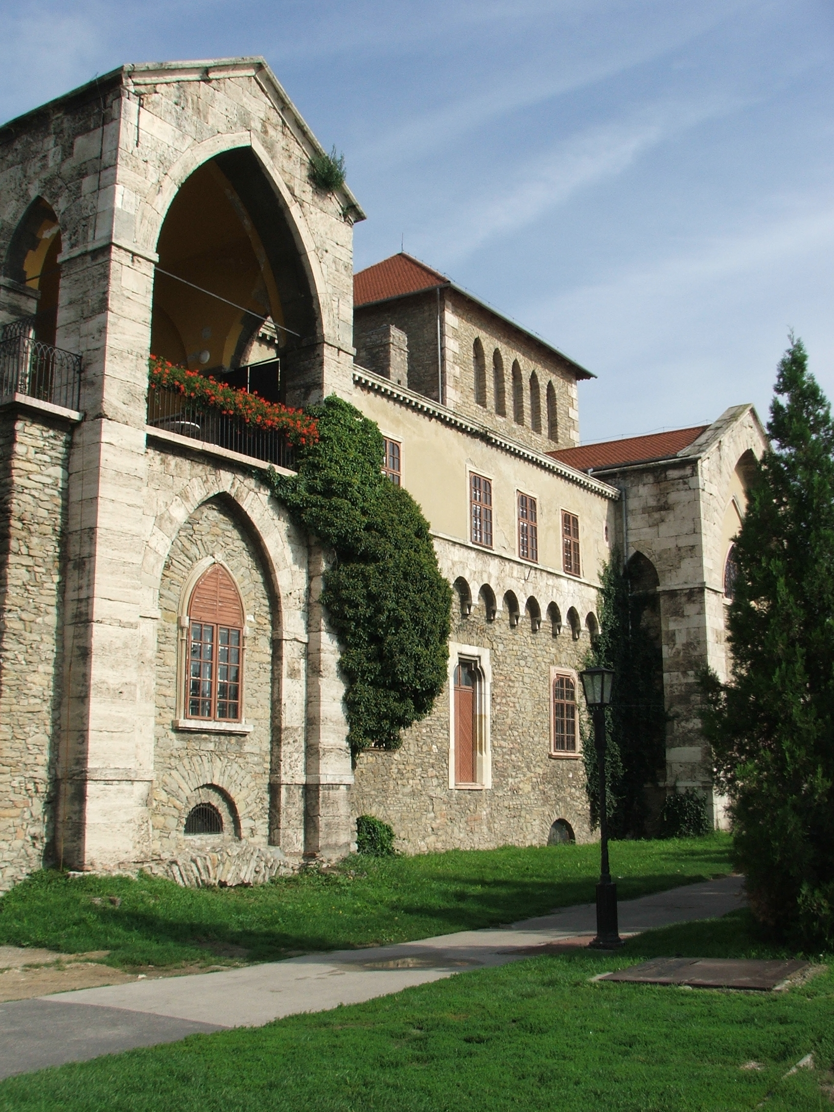 Tata castle Photo: József Süveg (2005)